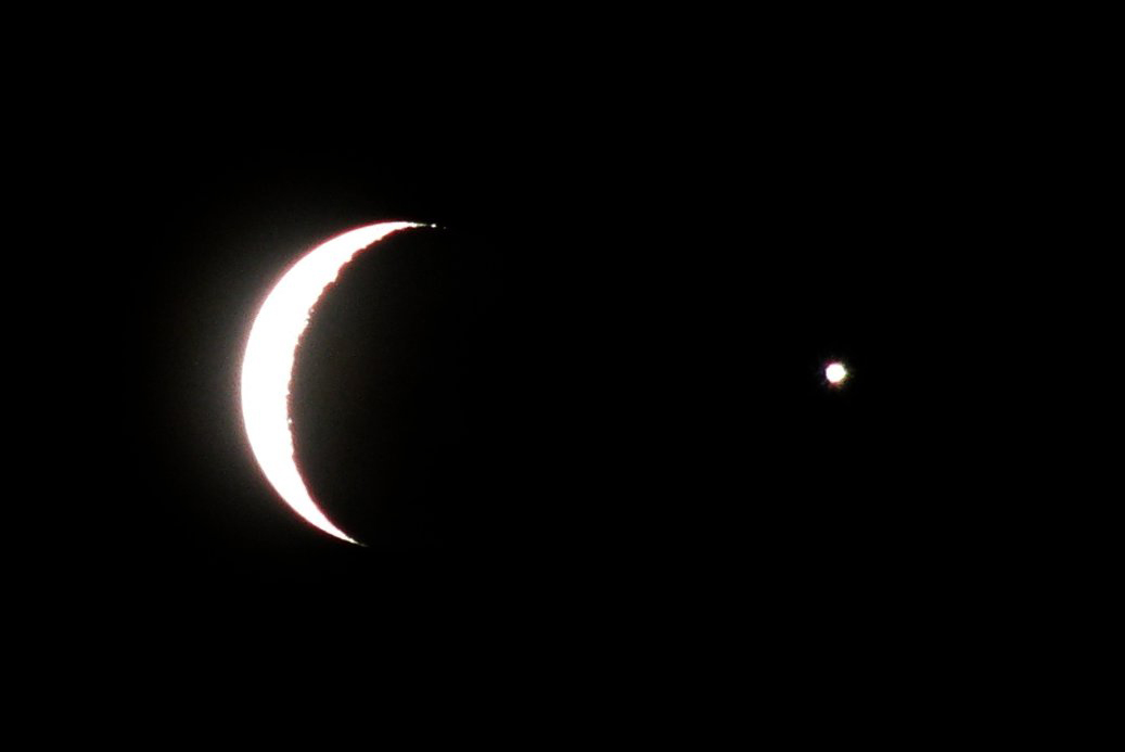 The Moon and planet Venus